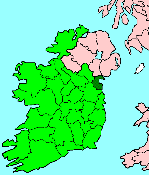 Louth